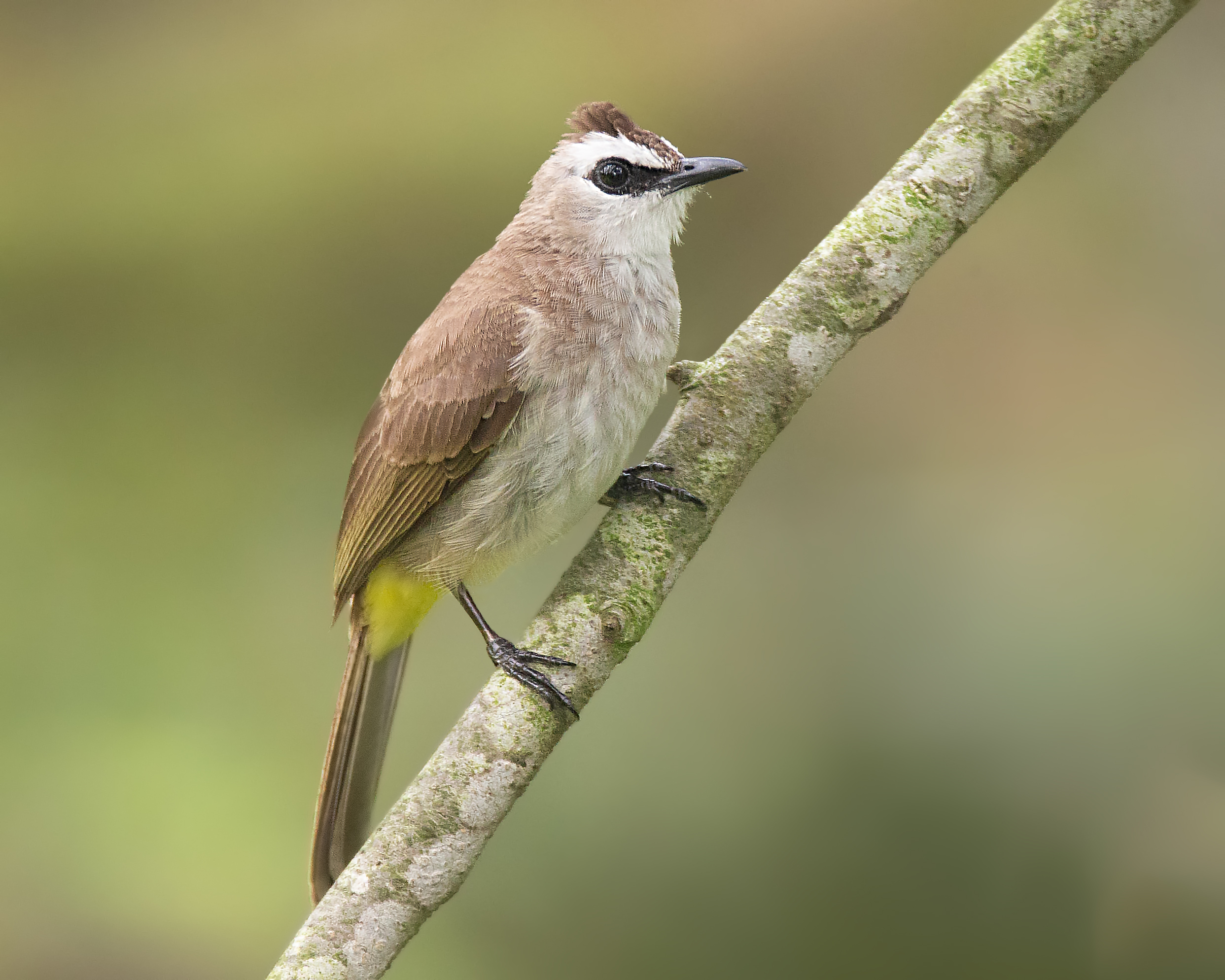 Yellow-vented Bulbul (Pycnonotus goiavier), Kent Ridge Park, Singapore